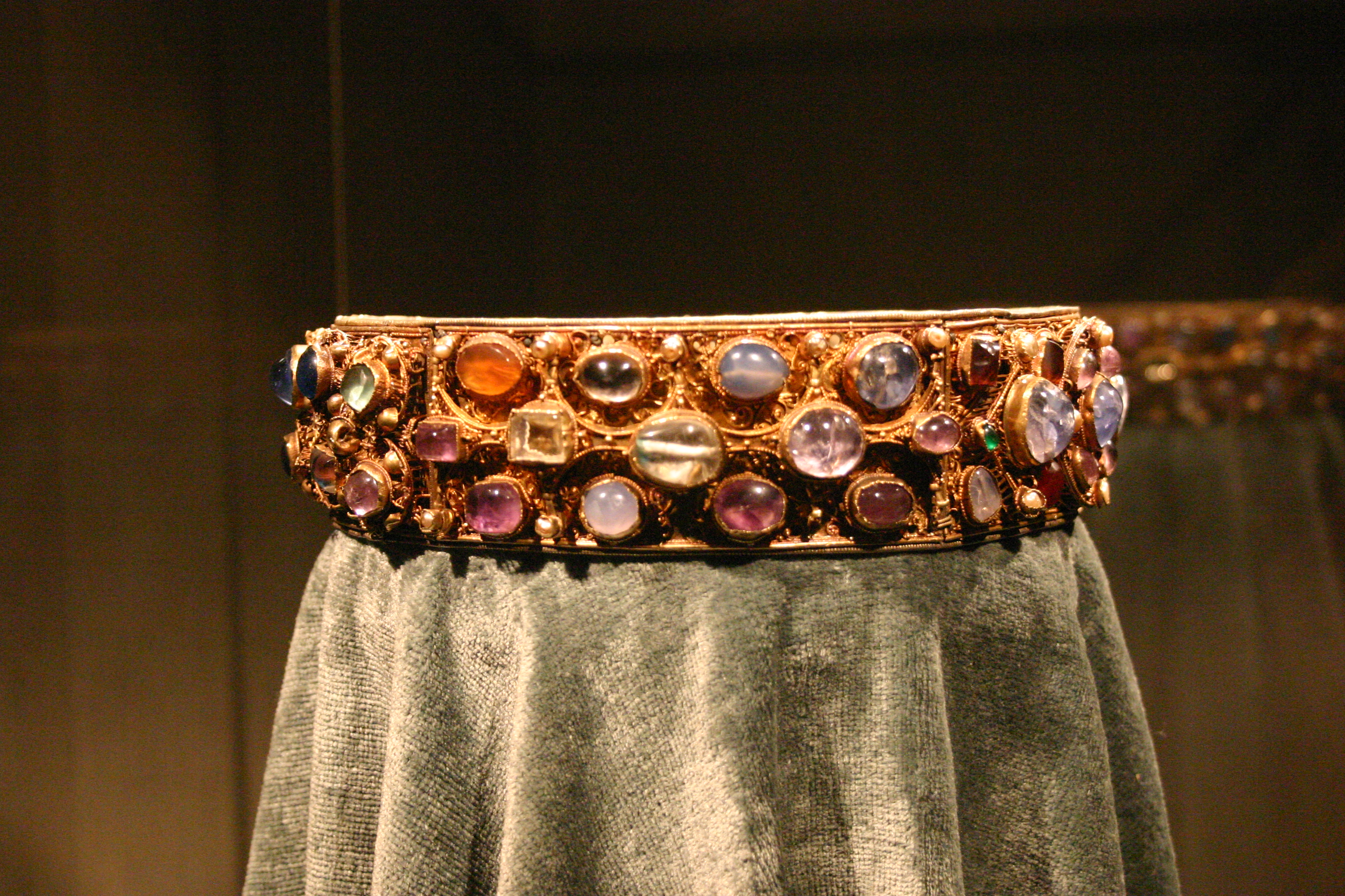 Crown of the Empress Cunigude, photographed on display at the Munich Residenz.